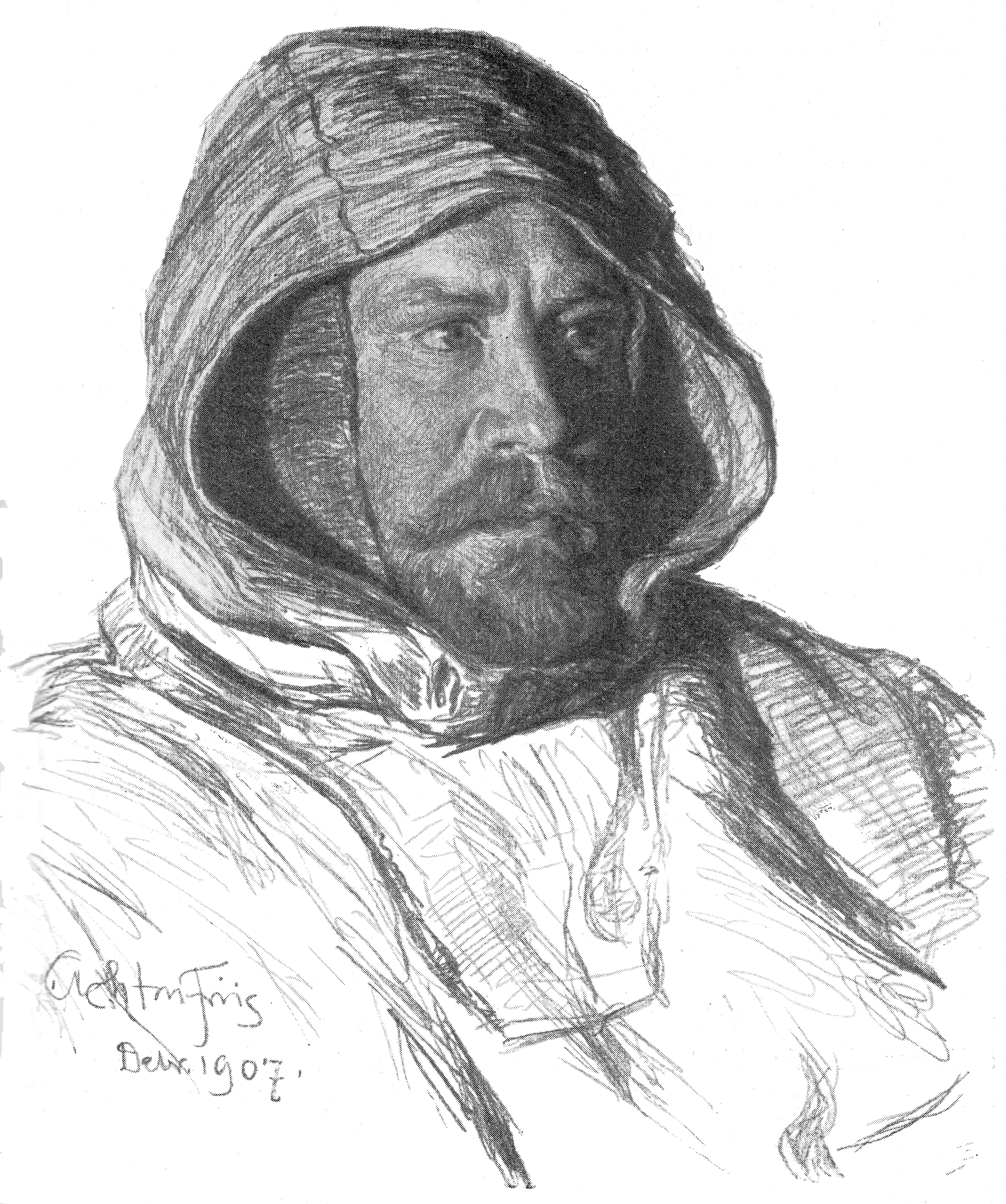 Danish polar explorer Johan Peter Koch (1870-1928).